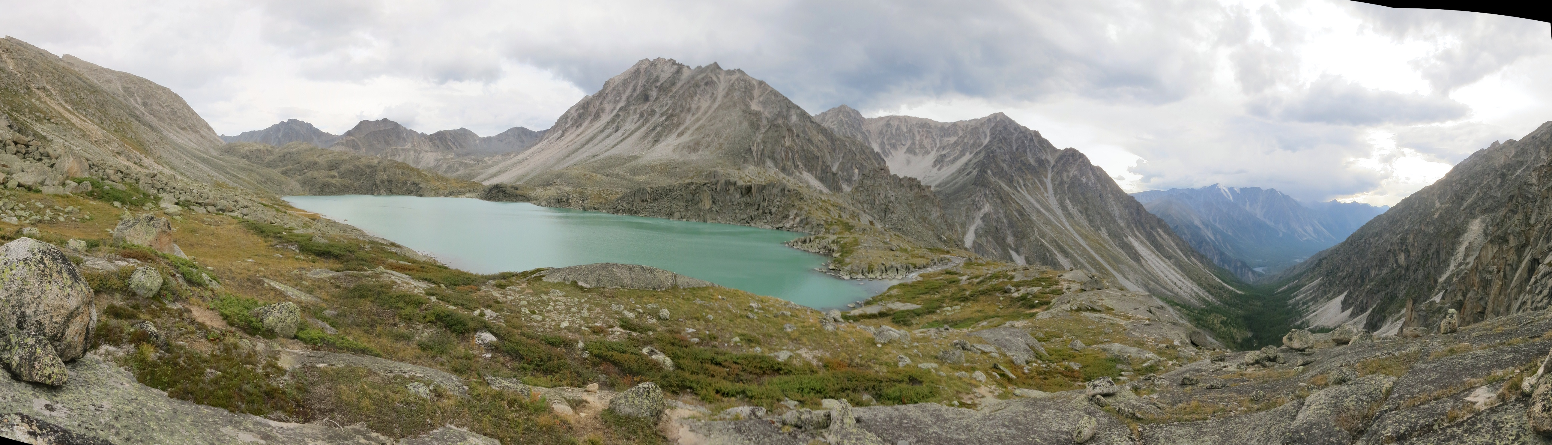 Kosh-Agachsky District, Altai Republic, Russia